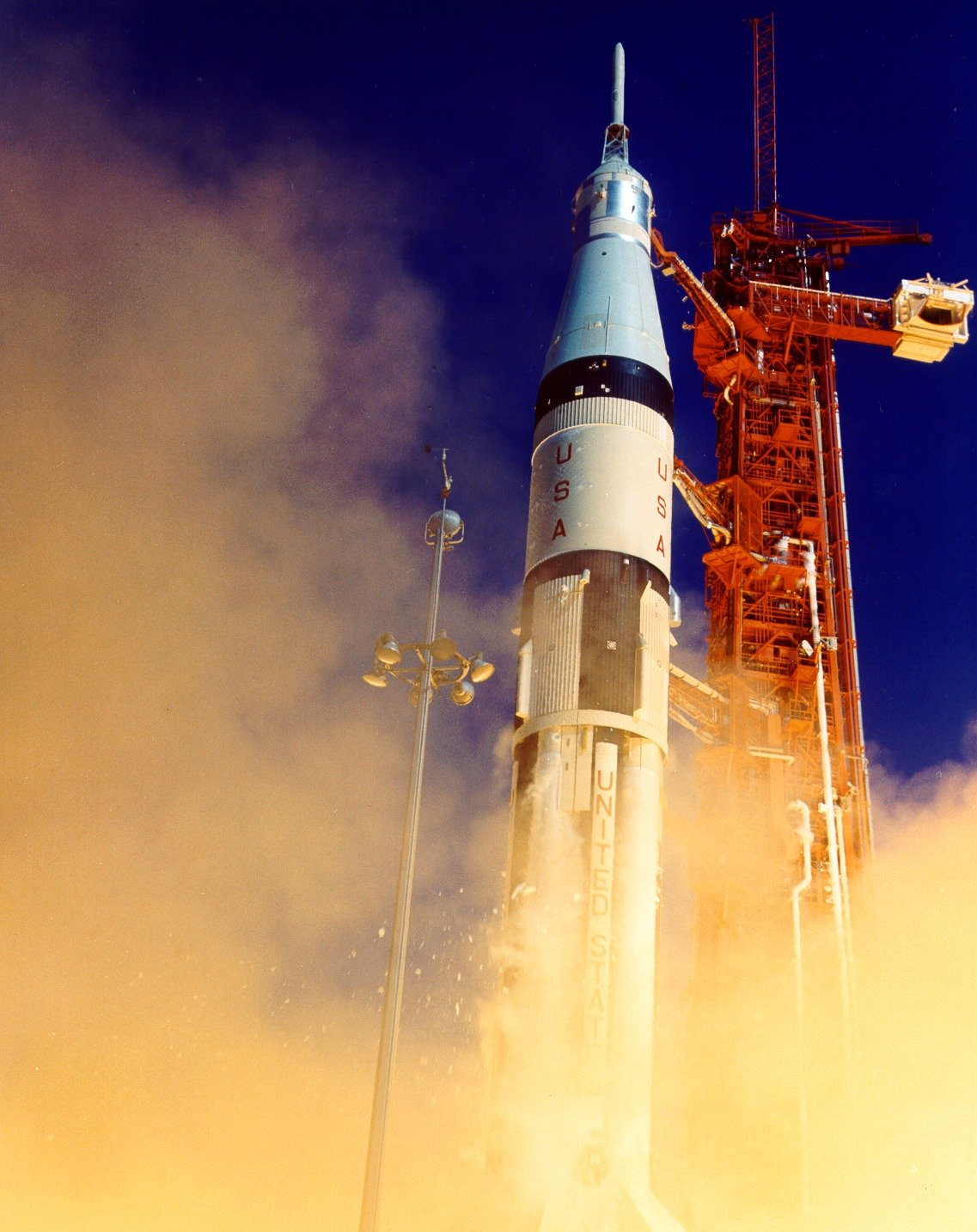 Liftoff of Apollo 7 from Cape Kennedy Launch Complex 34